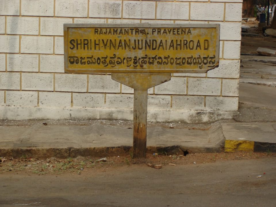 6th main road Malleshwaram, named after H. V. Nanjundayya